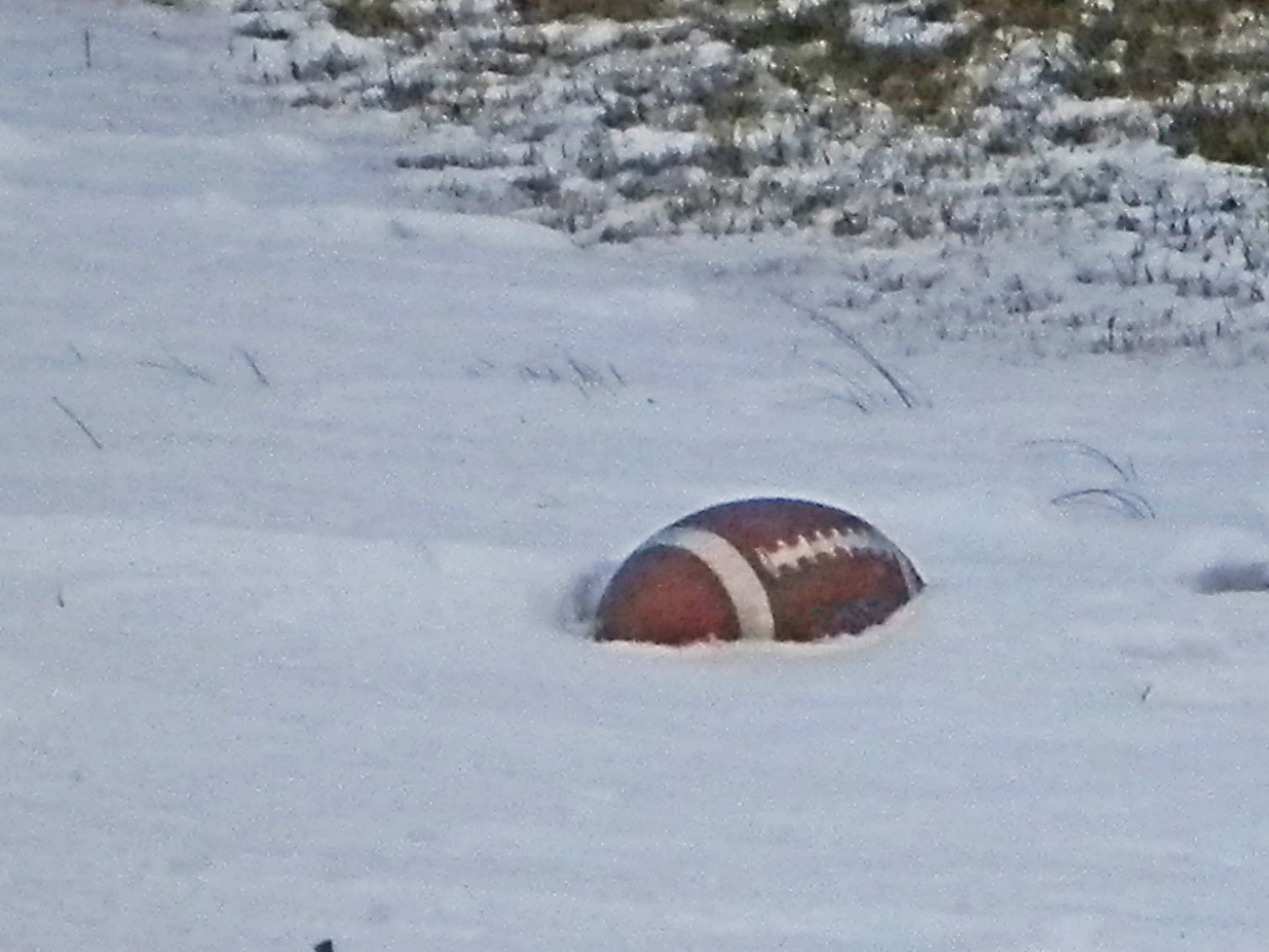 rugby ball in the snow